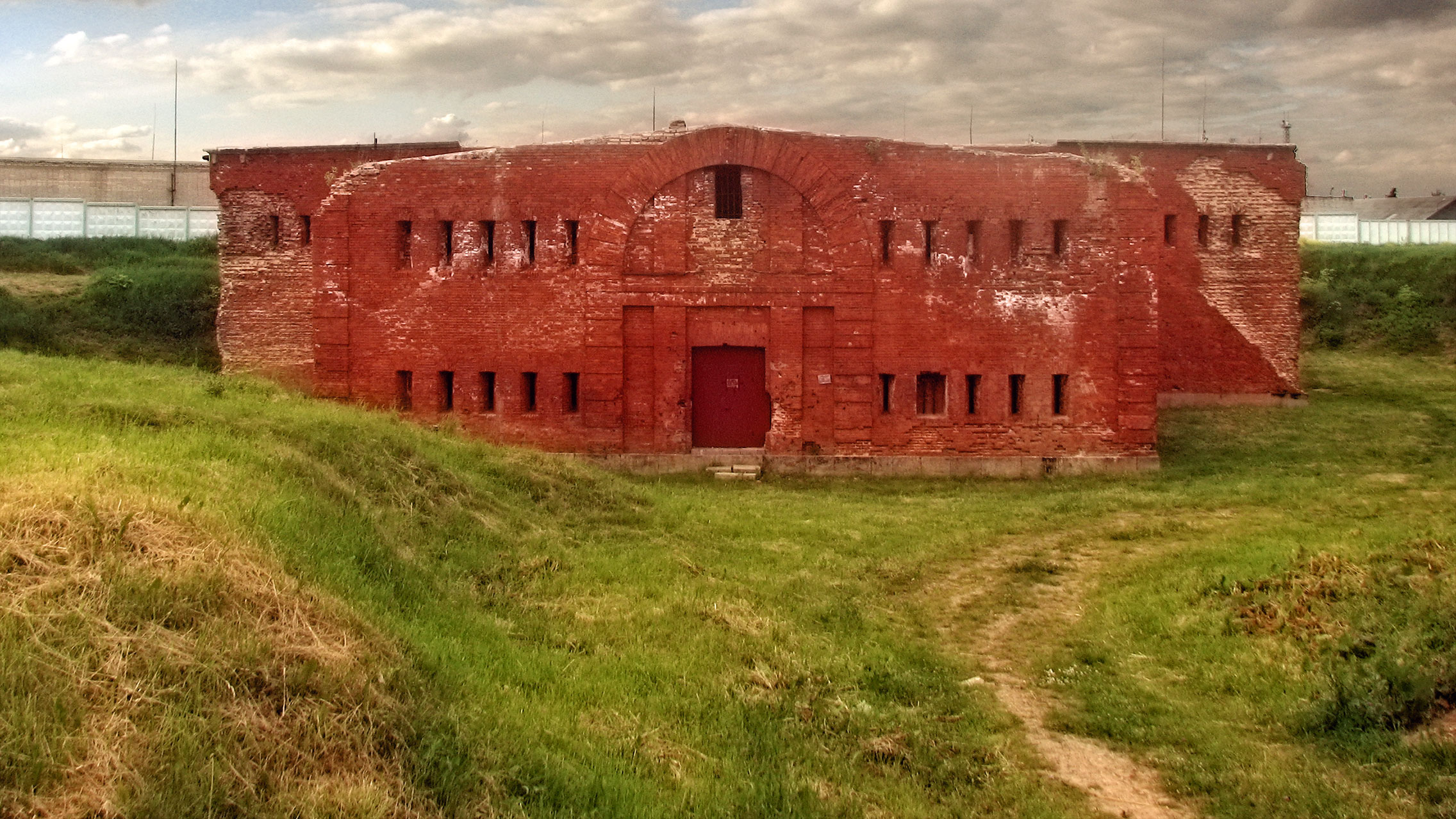 Беларуская (тарашкевіца): Крэпасць. г. Бабруйск This is a photo of Belarusian heritage monument. Reference number: 512Г000059 ( WLM)